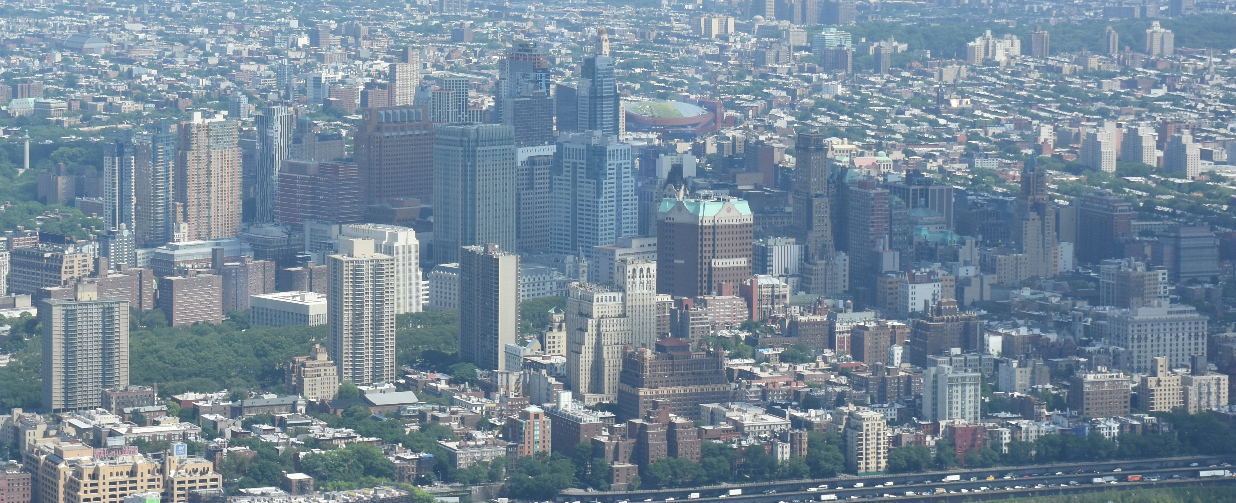 Downtown Brooklyn skyline as seen from One World Observatory in June 2015